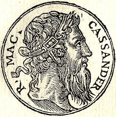 Cassander was a son of Antipater, and founder of the Antipatrid dynasty.